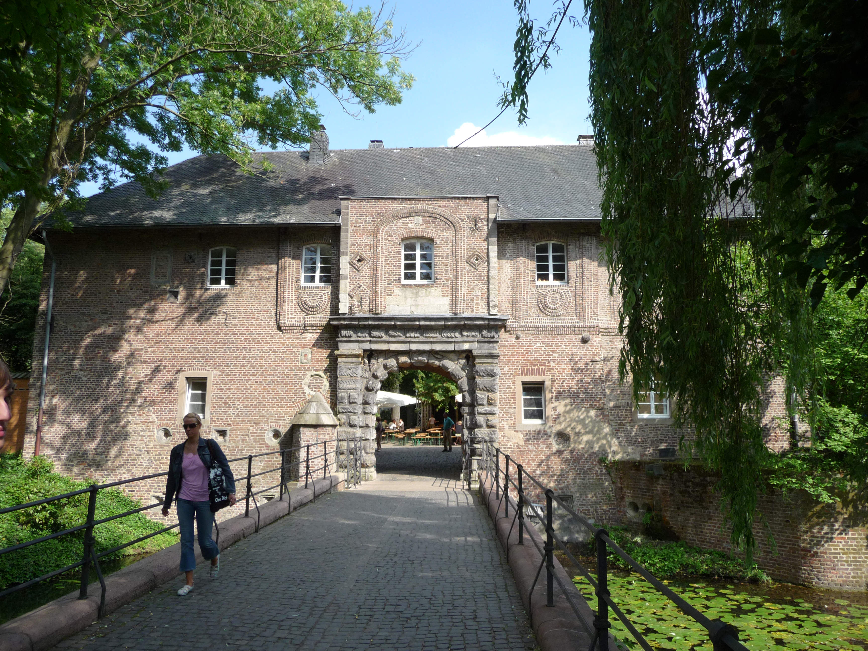 Schloss Rheydt